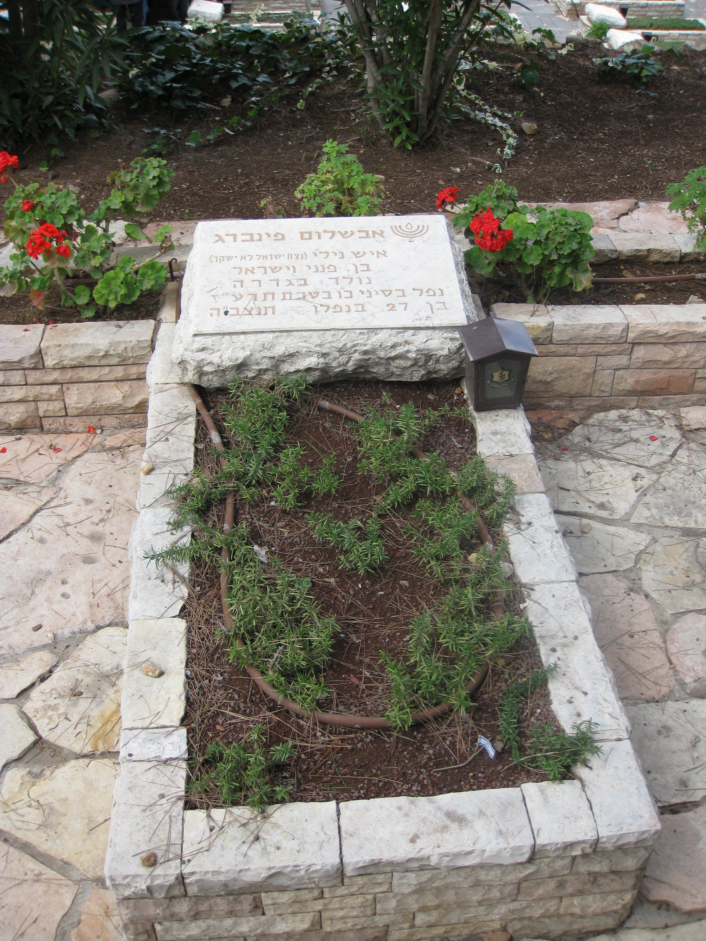 Grave of Avshalom Feinberg, Nili Plot, Mount Herzl in Jerusalem